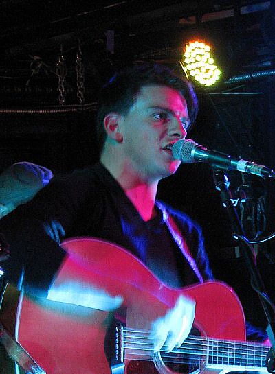 Joseph Dunwell of The Dunwells at The Saint, Asbury Park, NJ on 07212013. Photo by LHCollins.